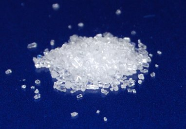 Zinc Sulfate crystals